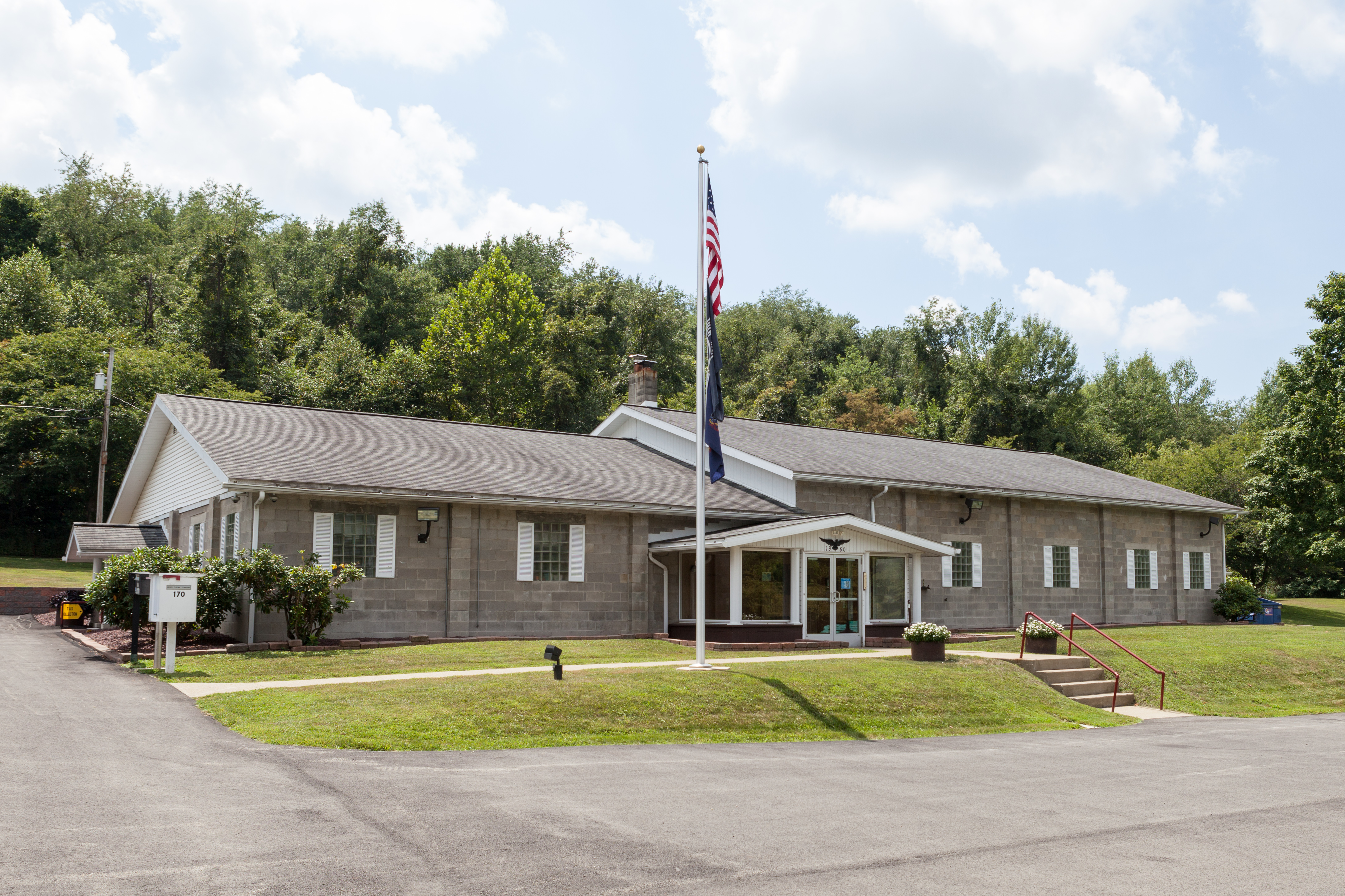 Upper Tyrone Township Municipal Building on Municipal Road in Upper Tyrone Township, Fayette County, Pennsylvania.